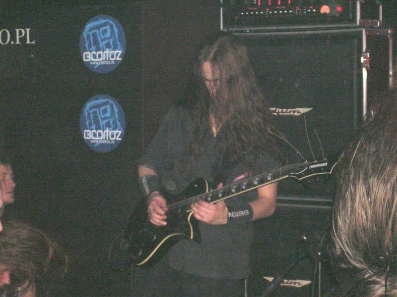 Dies Irae band, 2.02.2005, Wrocław, "Diabolique", The Ultimate Domination Tour 2005